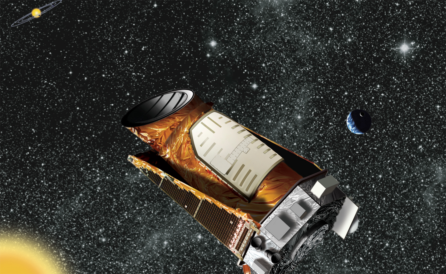 Artist's concept of the Kepler spacecraft.